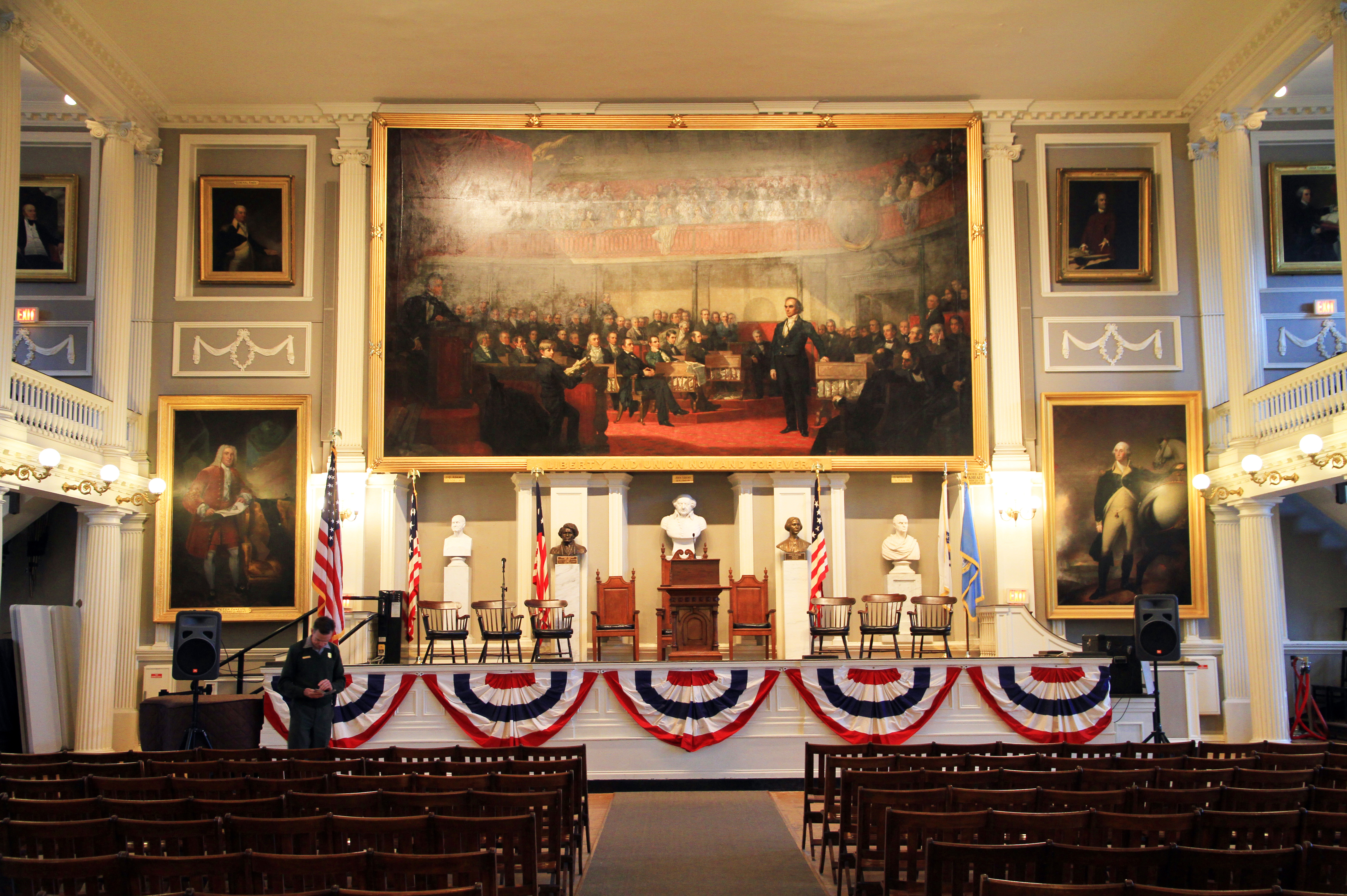 The Great Hall